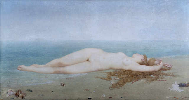 Périmèle, nymphe de Capri. Painting by Léonce Alexis Legendre (1864), now in the Musée des Beaux-Arts of Tournai (Belgium)